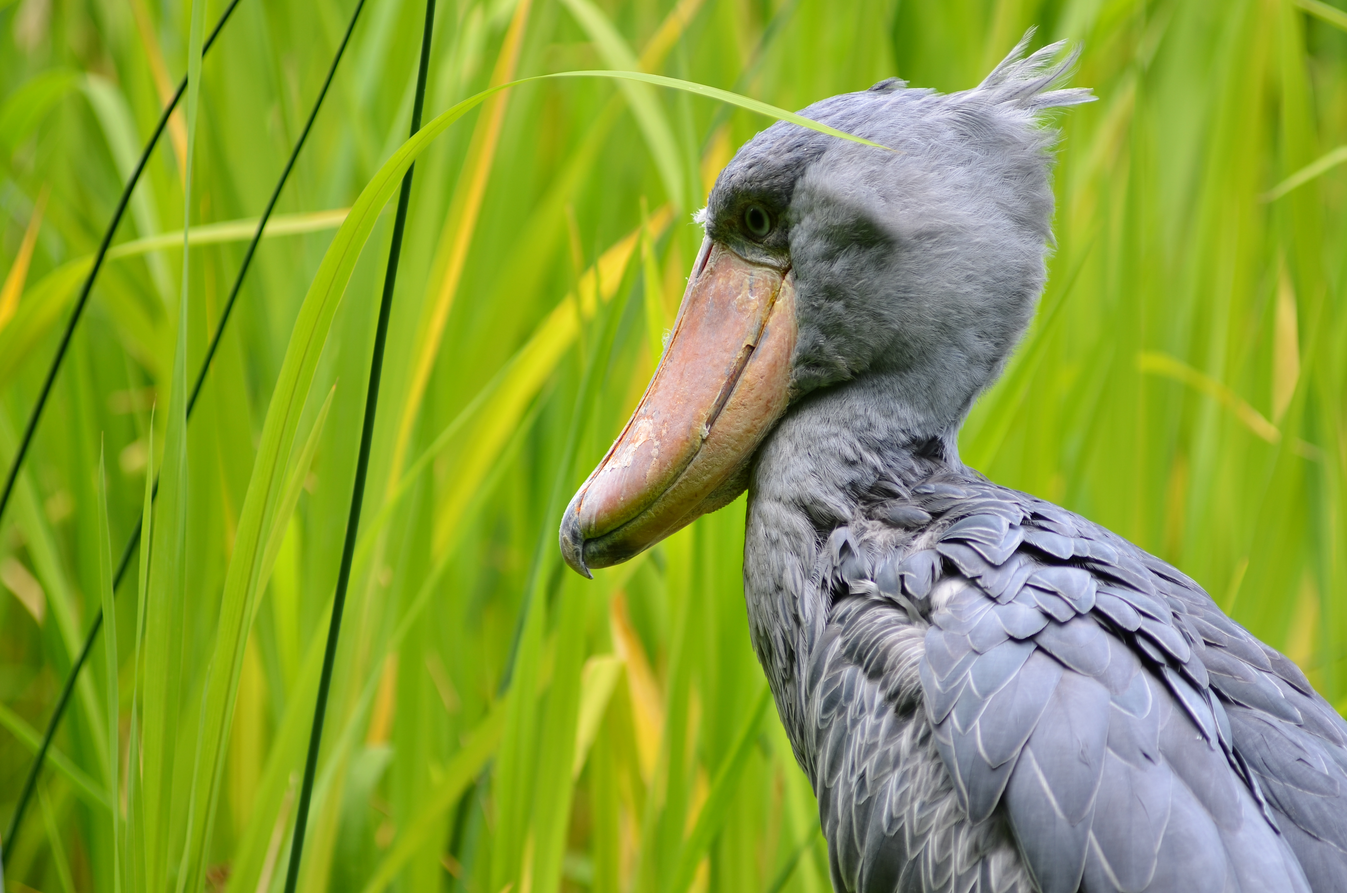 A Shoebill (Balaeniceps rex) being on the lookout at Weltvogelpark Walsrode (Walsrode Bird Park, Germany)